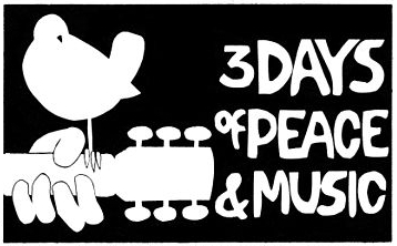 Magazine advertisement for Woodstock Music Festival in 1969. Logo-cut from File:Woodstock_flyer.jpg